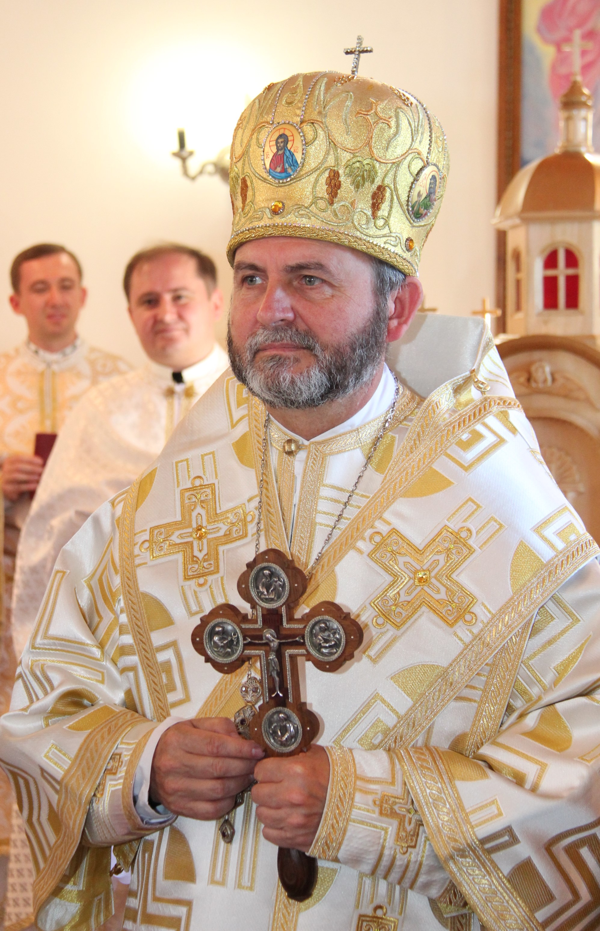 Bishop Dmytro Hryhorak, OSBM (19 Aug 2016)